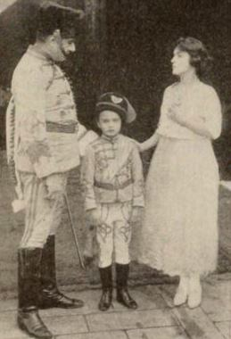 Still from the American melodrama film The Woman Who Gave (1918) with an unidentified actor, Russell Thaw, and Evelyn Nesbit, on page 48 of the October 26, 1918 Exhibitors Herald. Thaw was Nesbit's son.